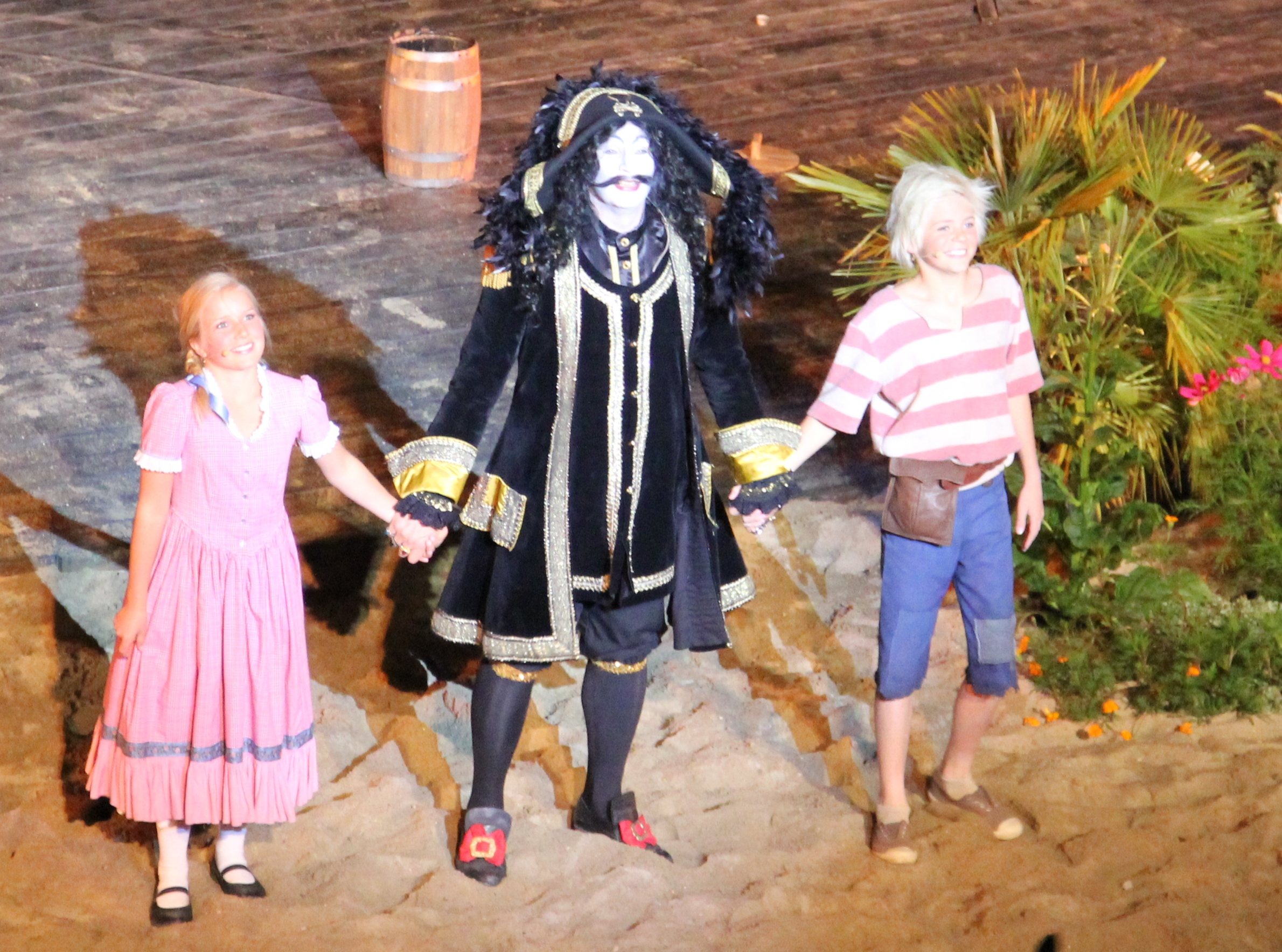 Terje Formoe as Captain Sabertooth / Kaptein Sabeltann for the first time in 8 years, after the new showing of "Kaptein Sabeltann og Grusomme Gabriels Skatt".